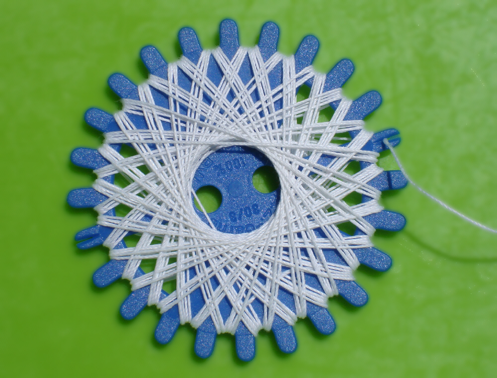 White cotton thread